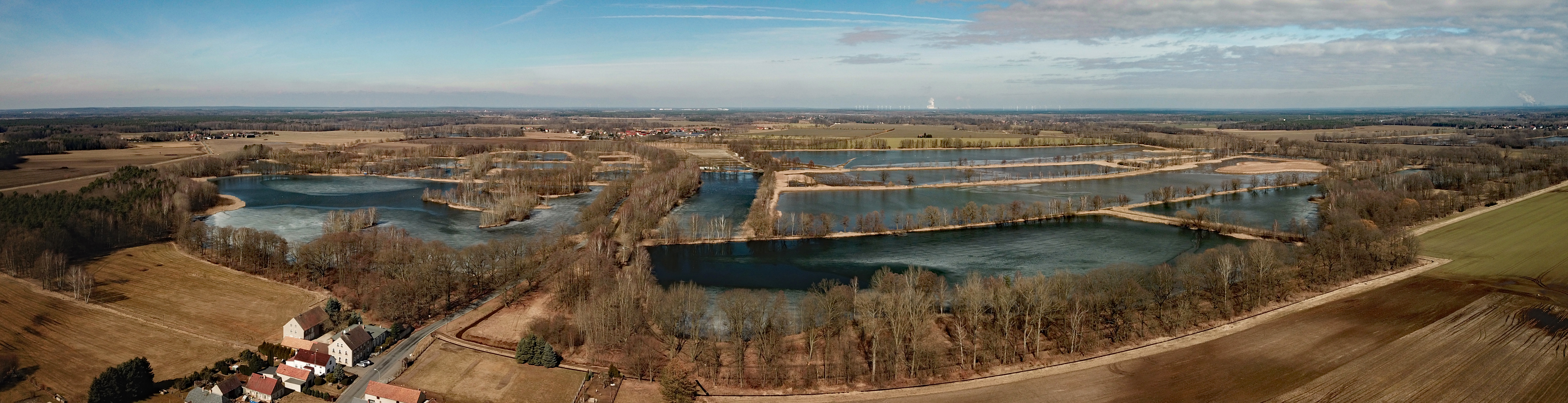 Commerau ponds (Königswartha, Saxony, Germany) Hornjoserbsce: Powětrowy wobraz Komorowskich hatow